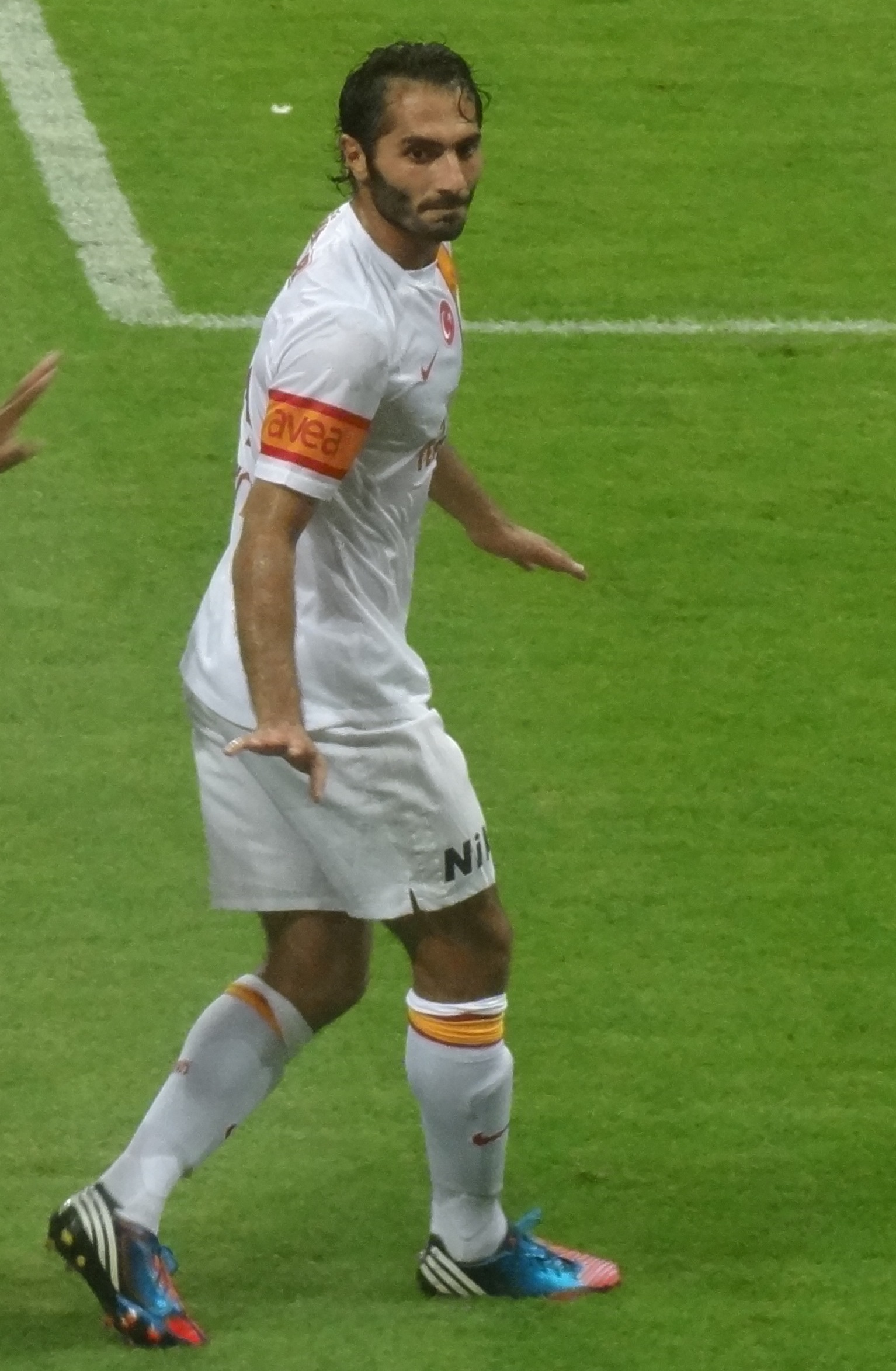 Hamit with GS kit